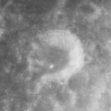 Morley, on the moon. Camera Altitude is 121 km, Sun Elevation is 59°.